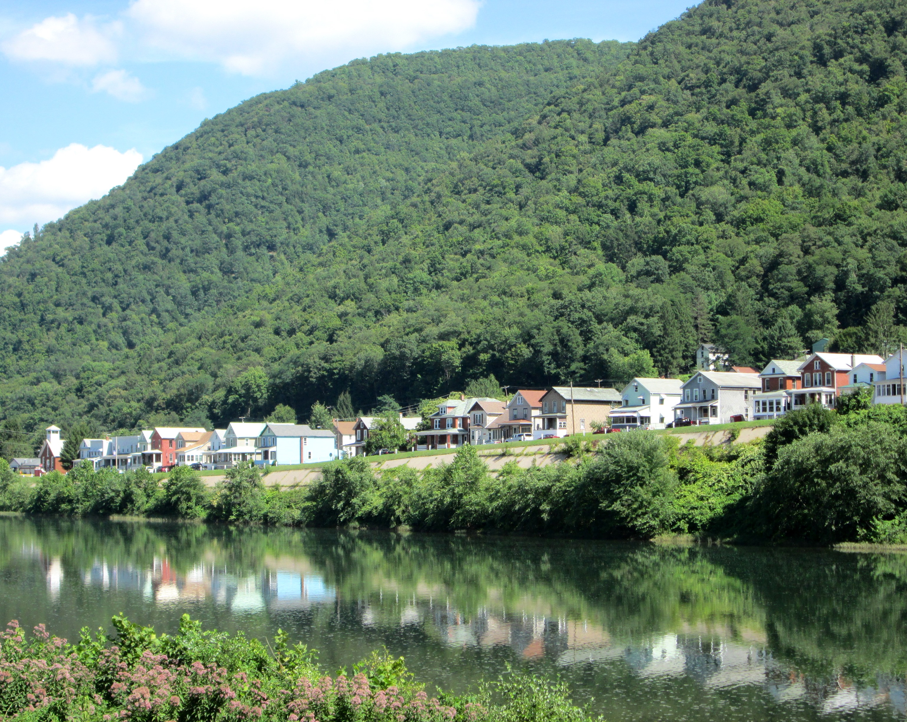 Houses along the West Branch Susquehanna River in South Renovo, Pennsylvania.